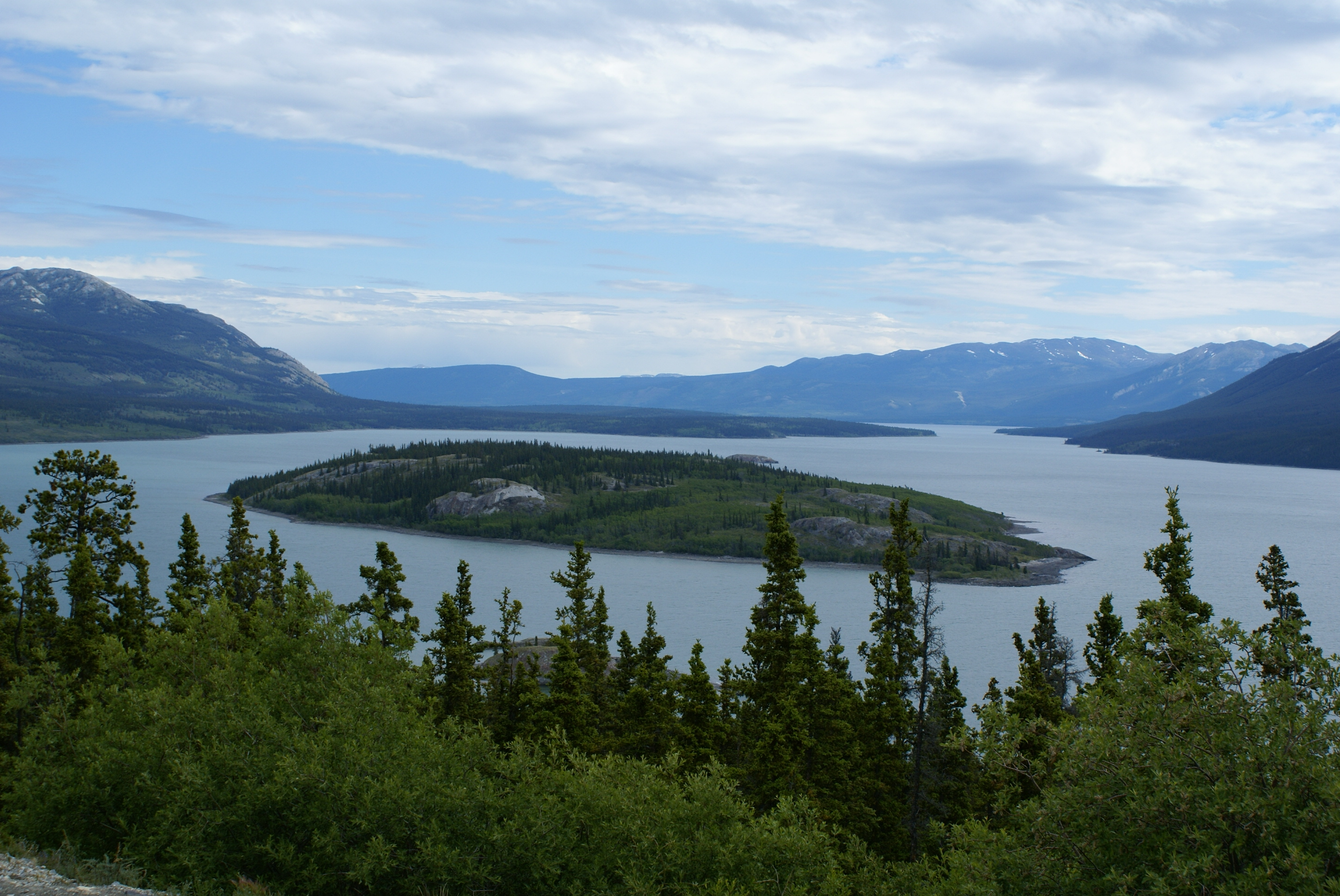 Bove Island in the Tagish Lake, Yukon Territory